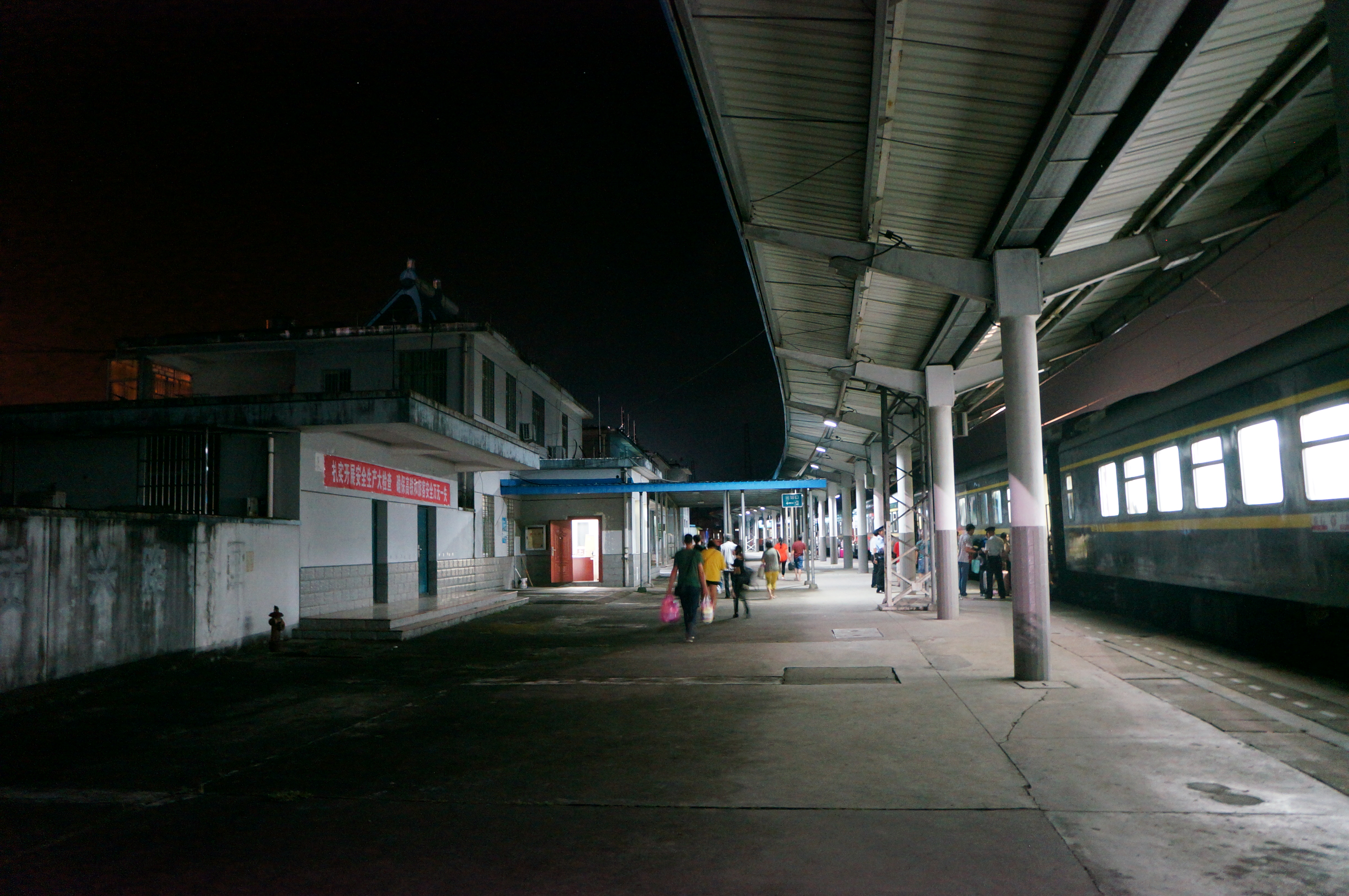 201708 Zixi Station. Zixi, Zhixi and Jixi sounds similar in Changzhou Dialect...